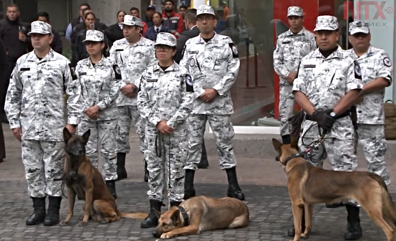 National Guard of Mexico with dogs, circa 00:22